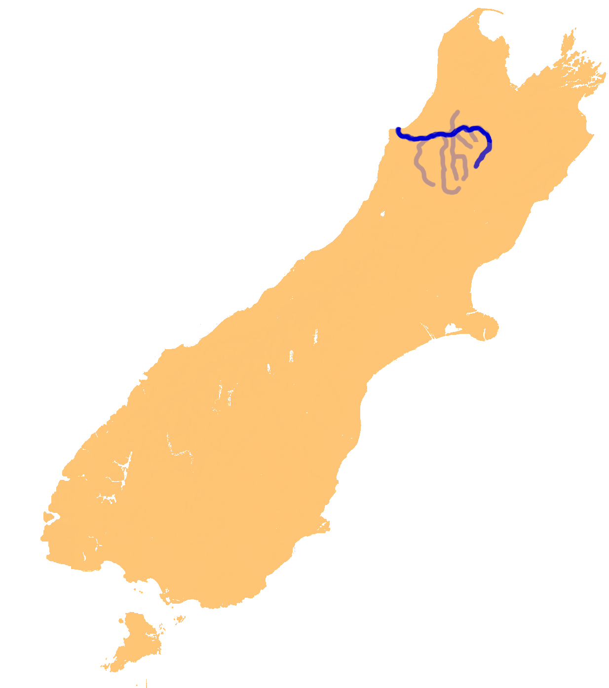 Location map of Buller river, Tasman and West Coast regions, South Island, New Zealand